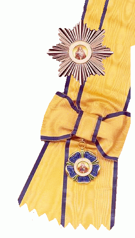 Βασιλικον Τάγμα της Ευποιΐας, Basilikon tagma tis Eypoiias Order of Benevolence